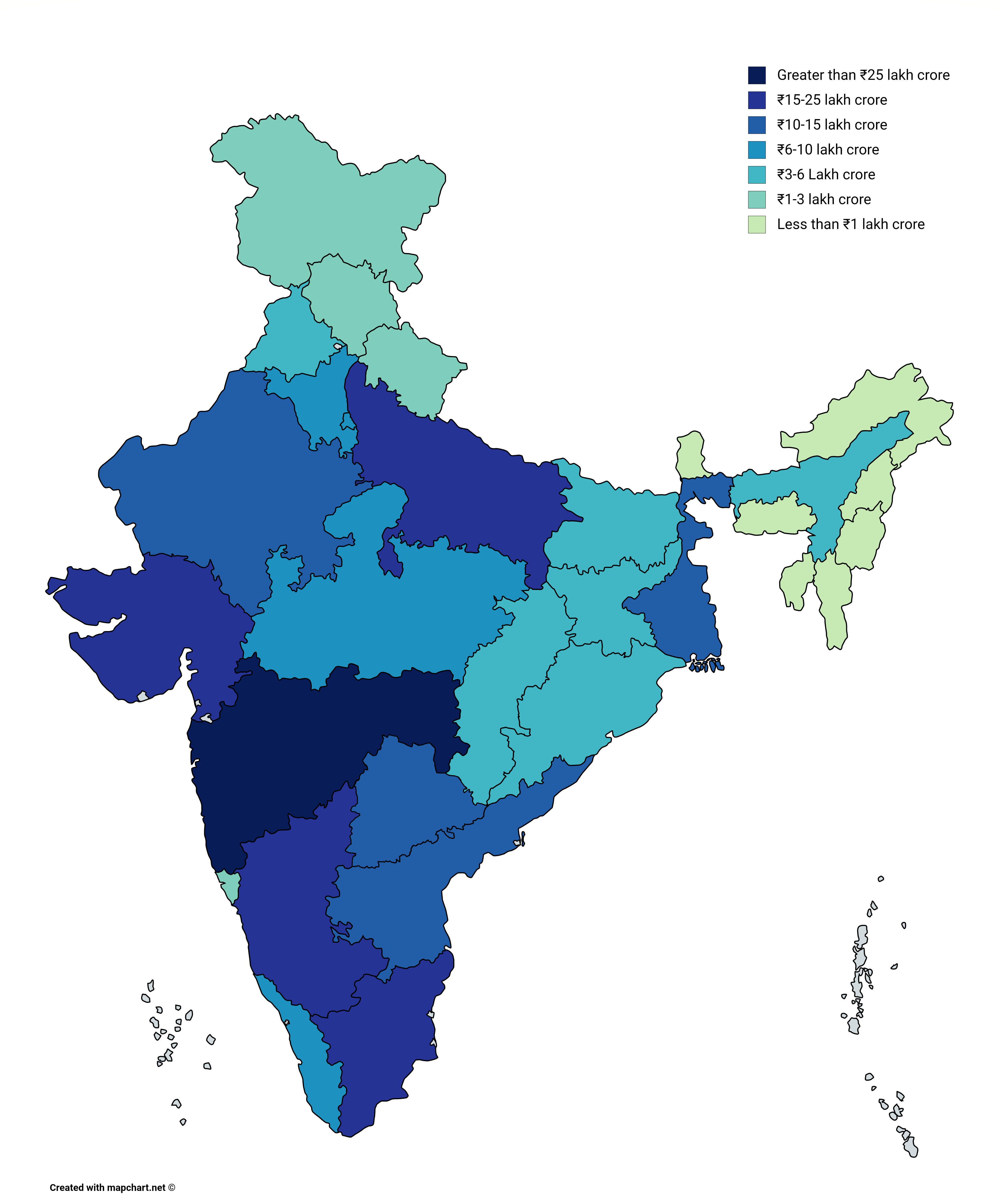 GDP of Indian states by sondhi